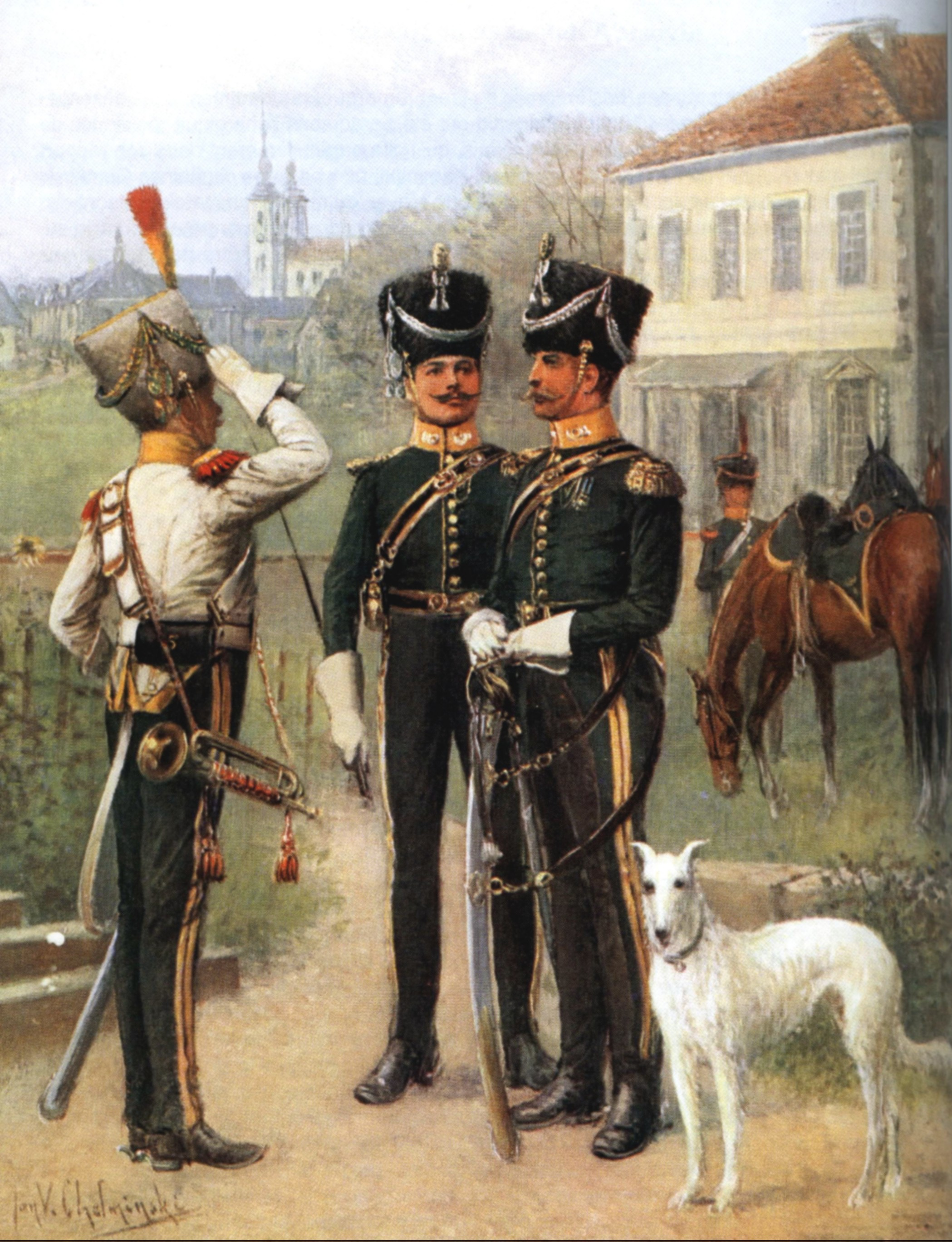 5th Chasseurs Regiment of Duchy of Warsaw